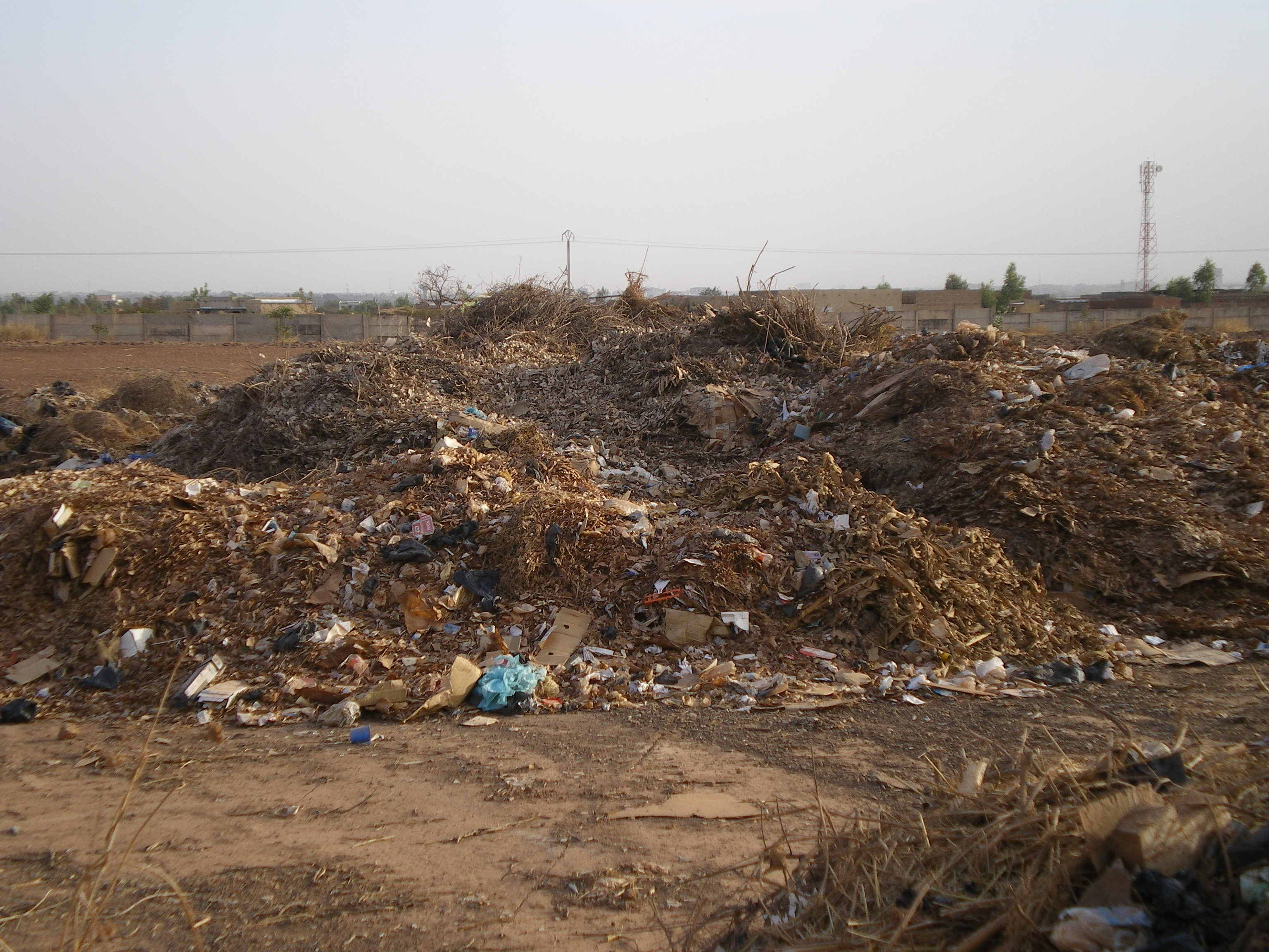 Burkina Faso: solid waste reuse in Ouagadougou - La réutilisation des déchets solides à Ouagadougou